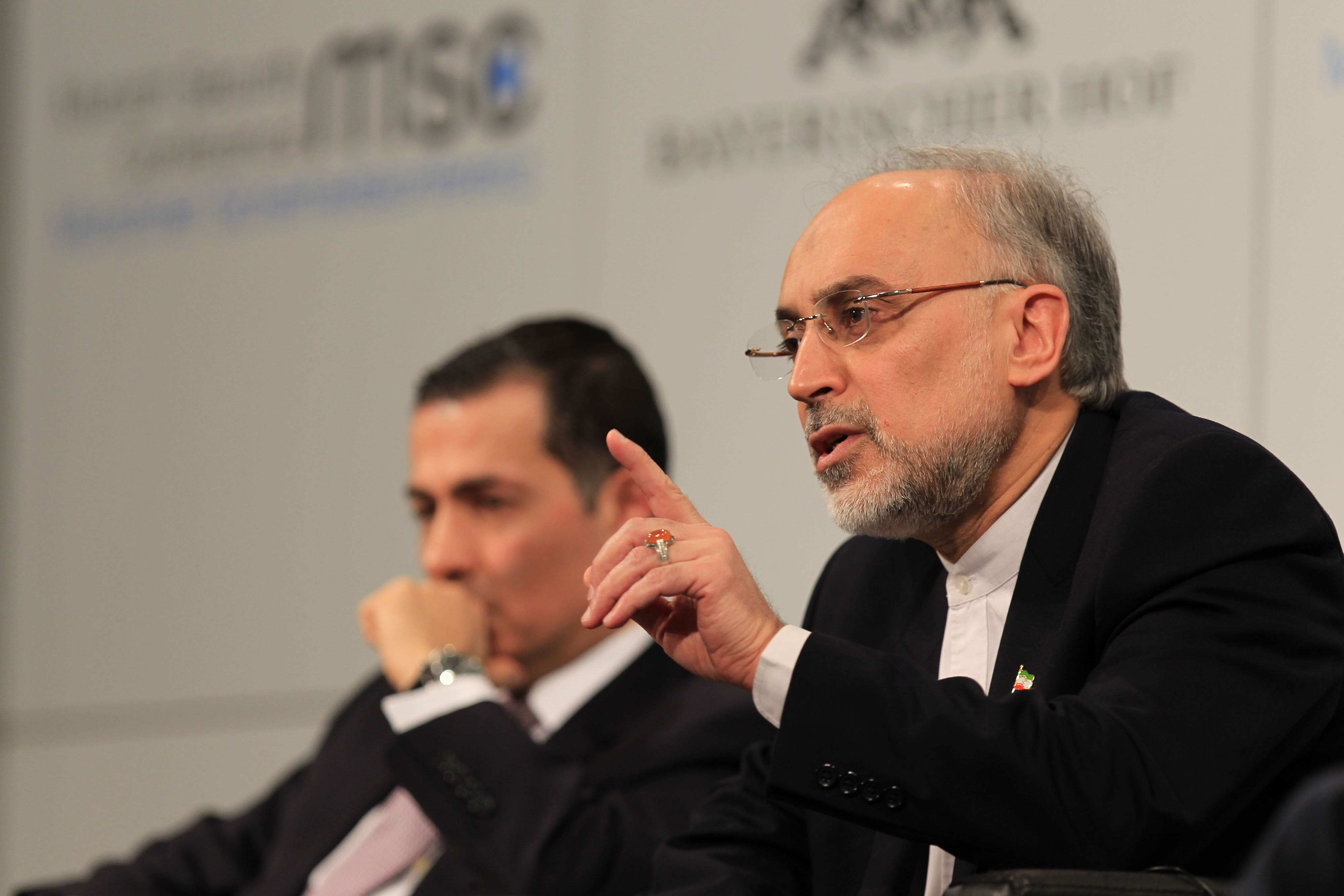 49th Munich Security Conference 2013: Iranian Foreign Minister Salehi: Iranian Foreign Minister Ali Akbar Salehi (right), and Vali Nasr, Dean of the Paul H. Nitze School of Advanced International Studies at Johns Hopkins University, during a panel discussion on Iran.